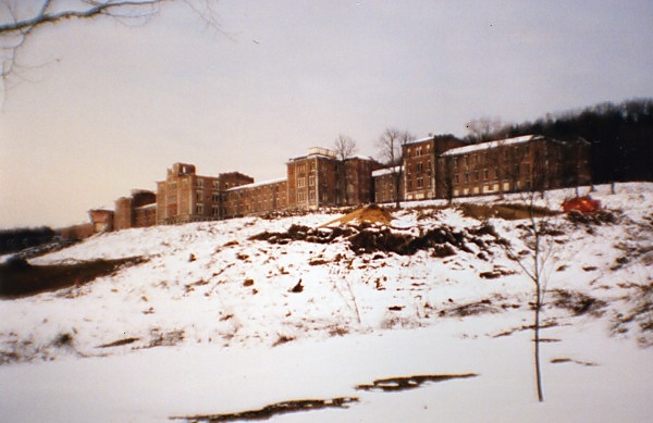 Taken at about 10pm with a full moon and some nice fresh snow. This is the main Kirkbride building, Reed Hall, of the former Western PA Hospital for the Insane/Dixmont State Hospital. Soon to be demolished because the world needs another Wal-Mart.